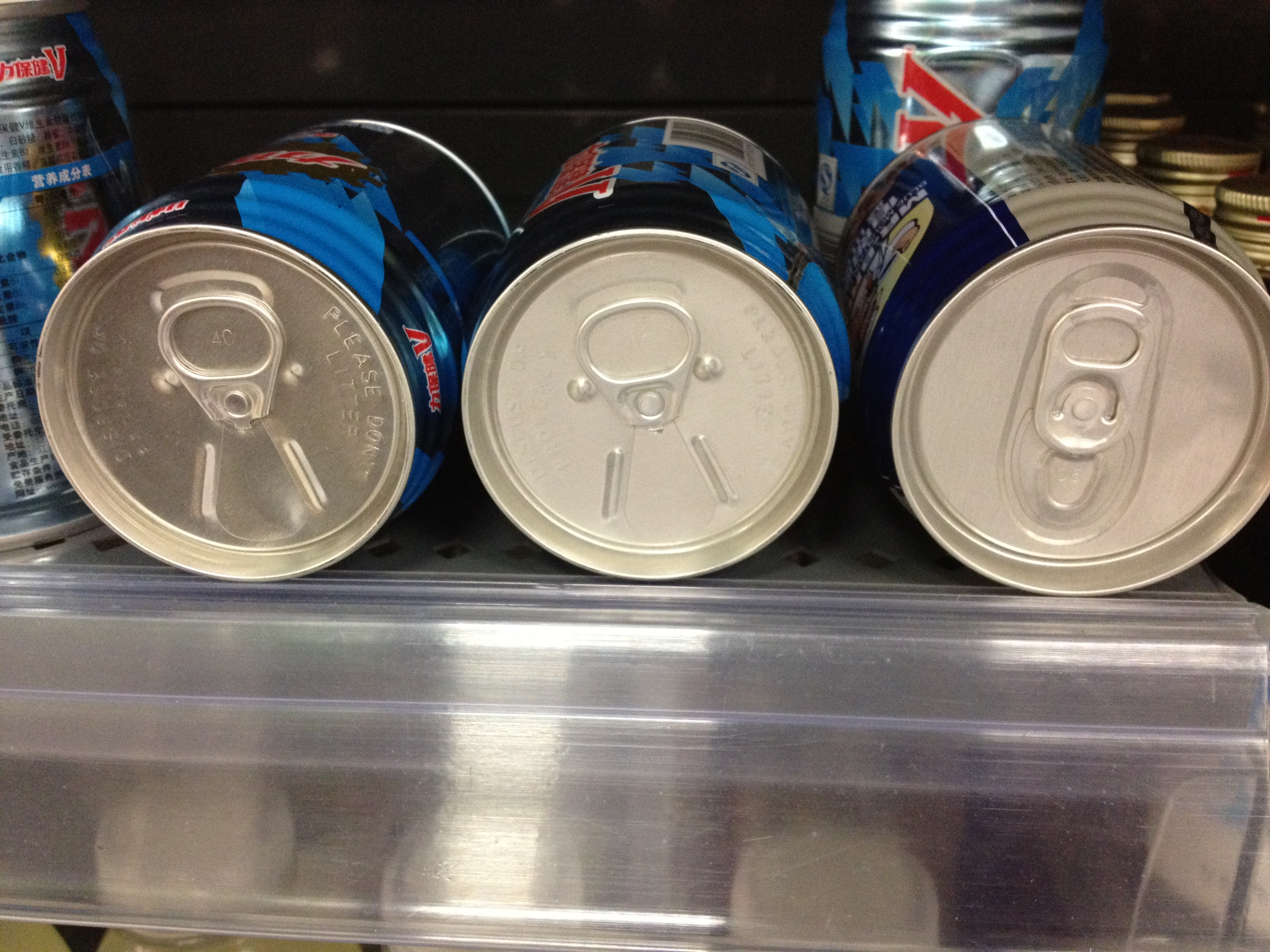 Beverage can of pull tab type and stay-on-tab type is both sold at China, Shēnzhèn, in May, 2012.